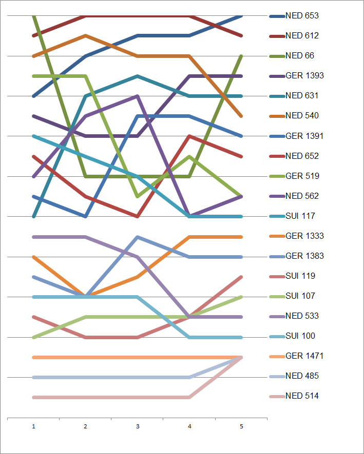 O-Jolle Positions during the 2012 Vintage